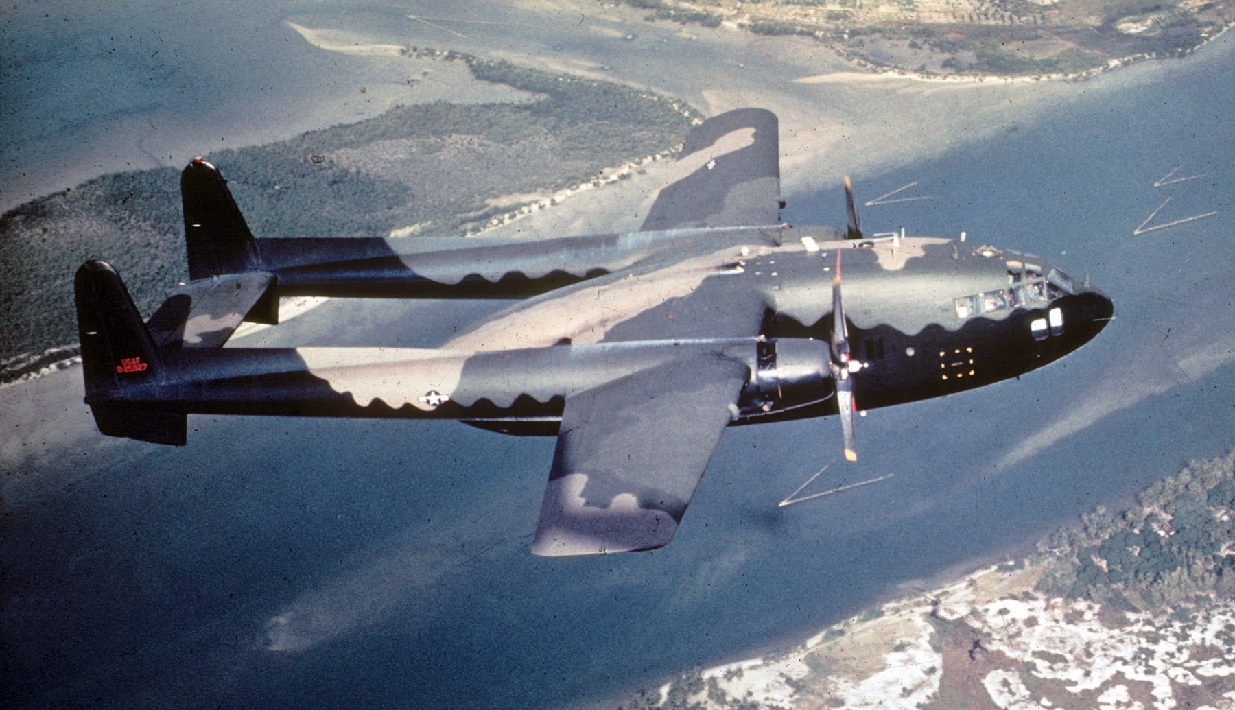 A U.S. Air Force Fairchild AC-119G Shadow (s/n 52-5927, c/n 11106, mod.no. 110) in flight, in 1968. This aircraft was assigned to the 71st Special Operations Squadron (nickname "The Devil's Advocate"), 14th Special Operations Wing, at Nha Trang Air Base, Vietnam. The 71st SOS performed combat gunship, forward air control, and other special operations from December 1968 to June 1969. 52-5927 was finally sold to the South Vietnamese Air Force in August 1971. The nose was allegedly at the Henderson Nevada Vintage Racing Car and Aviation museum, but this has been identified as actually being from 50-161.